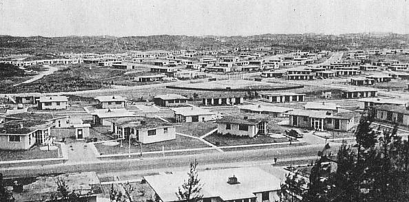 Makiminato Housing Area